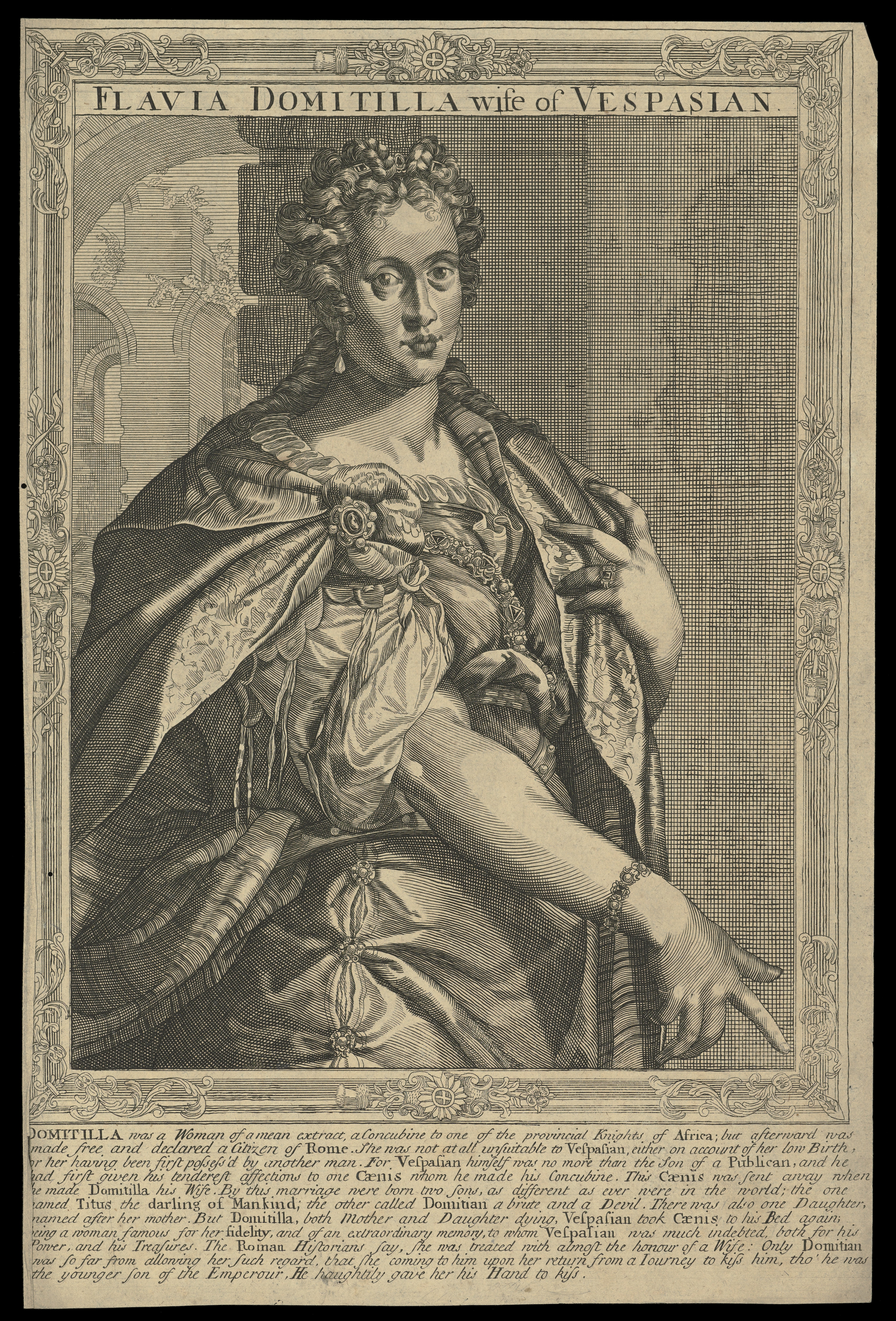 Flavia Domitilla, wife of Vespasian, Emperor of Rome. Line engraving, 16--, after A. Sadeler after Titian Iconographic Collections Keywords: Flavia Domitilla,; name; Ægidius Sadeler